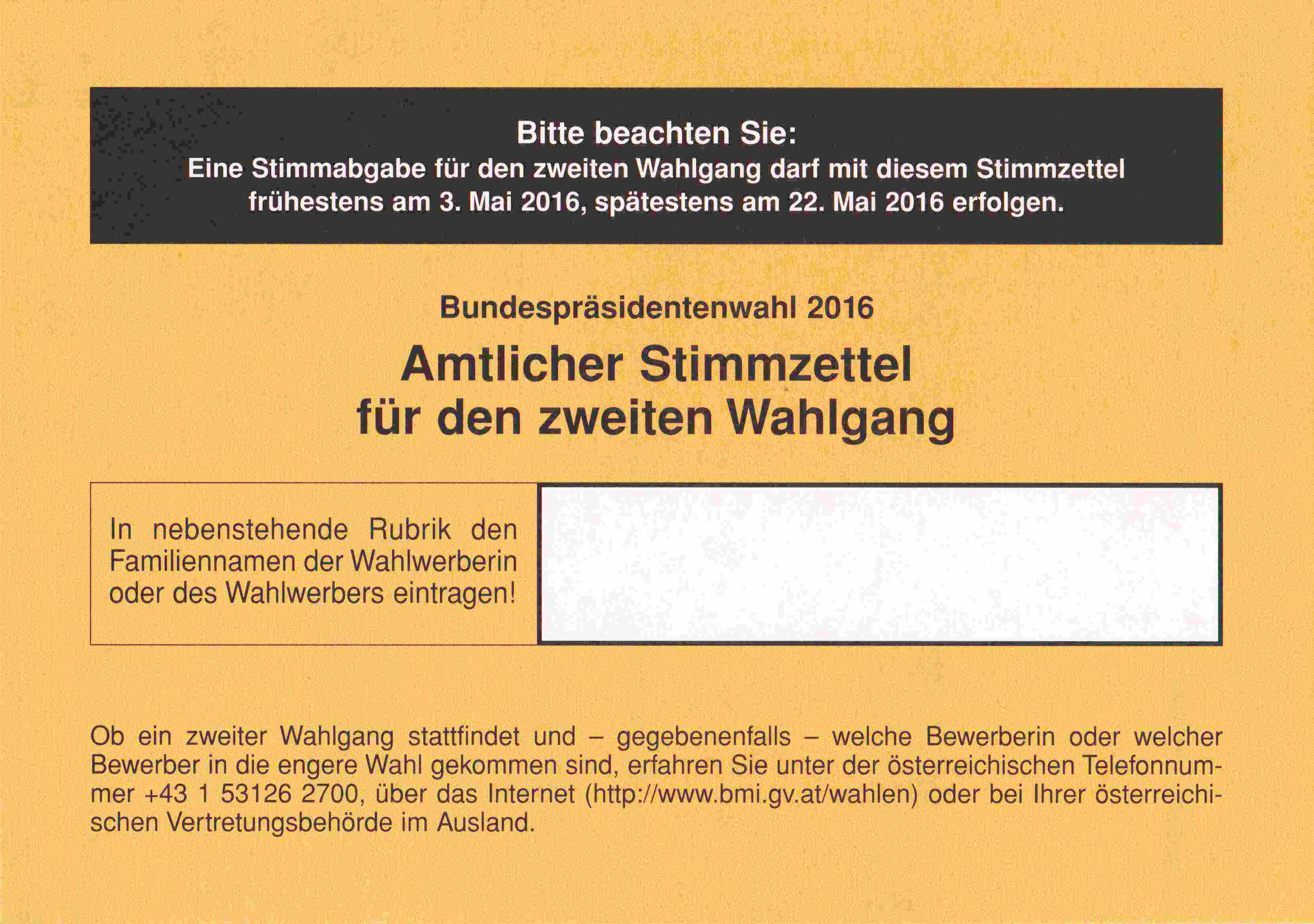 Ballot paper - Austrian presidential election 2016 (second ballot)